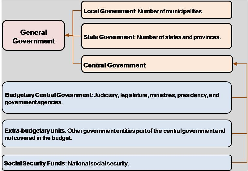 Structure of the General Government